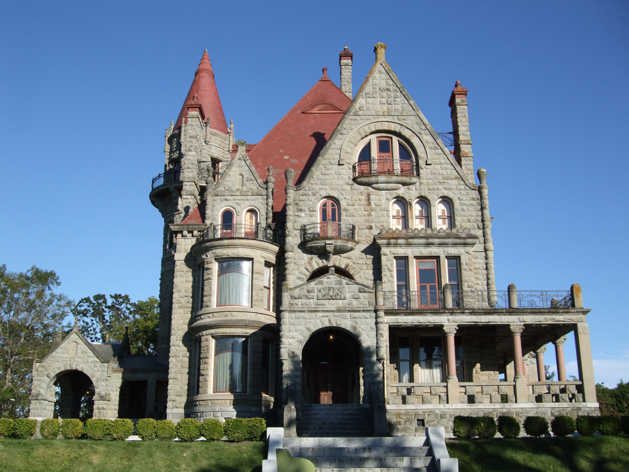 Craigdarroch Castle - Victoria, B.C. Canada Historic Place - IDF11955 IDM1478